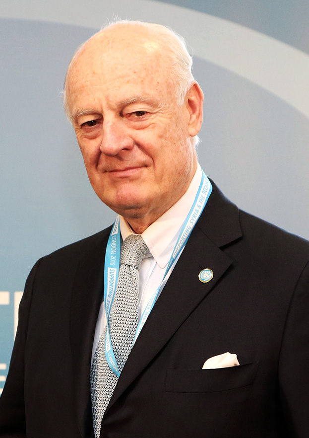 Foreign Secretary Philip Hammond meeting Staffan de Mistura, Special Envoy of the United Nations Secretary-General for Syria in London, 4 February 2016.